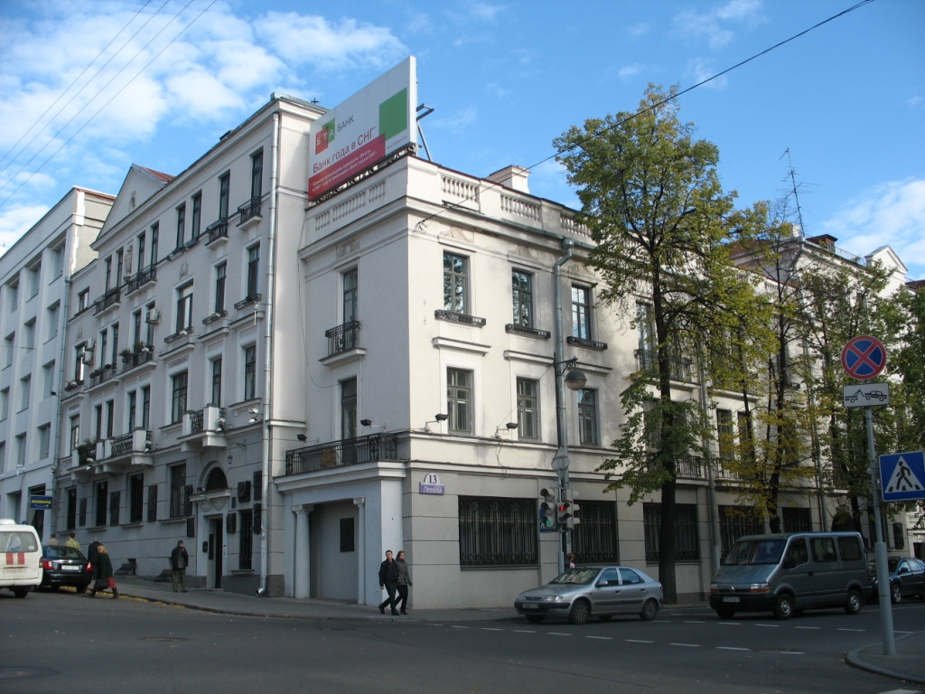 Building of Henryk Julian Gay, Minsk Marksa